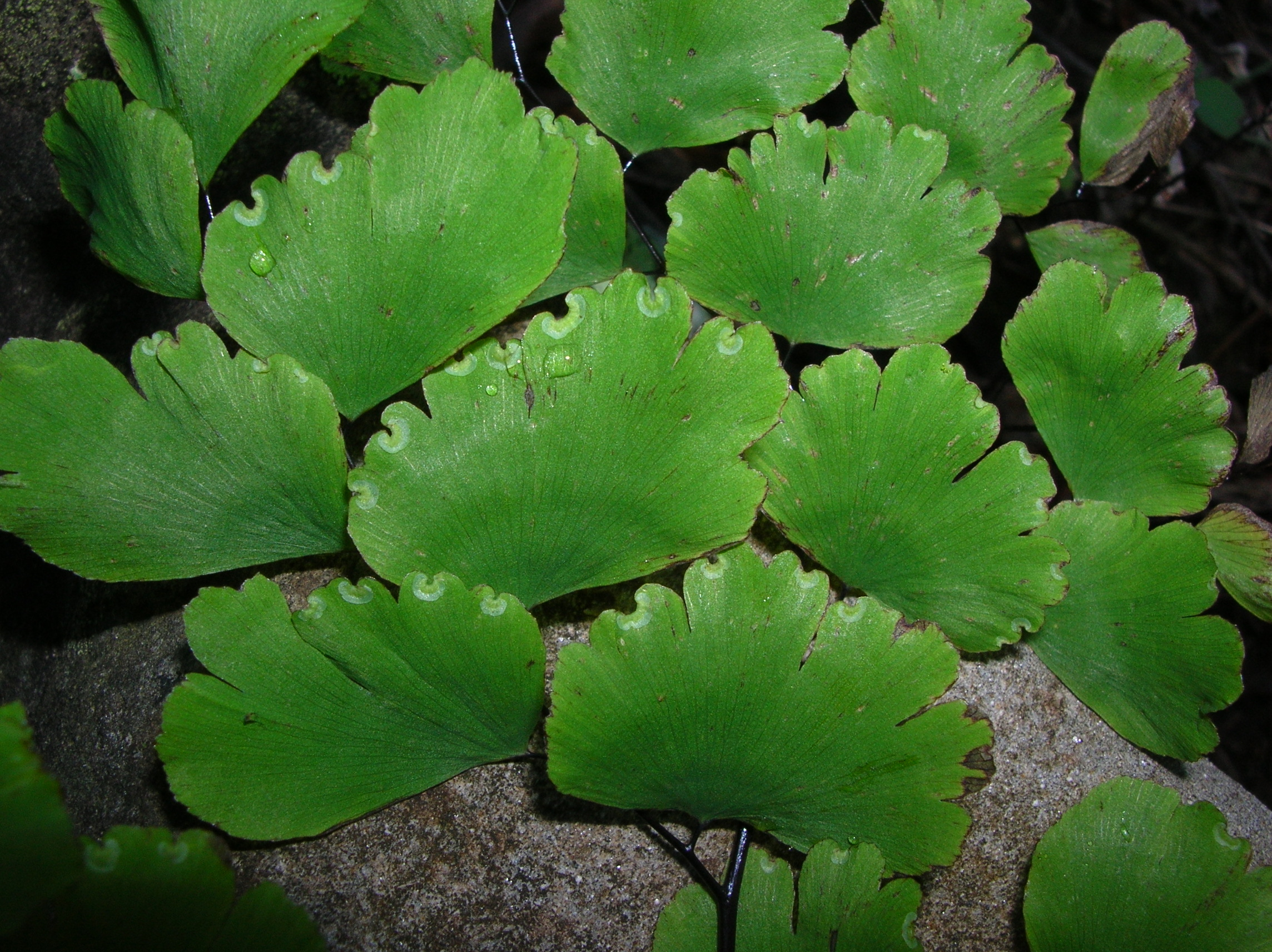 Adiantum raddianum (u shaped sori). Location: Maui, Lihau